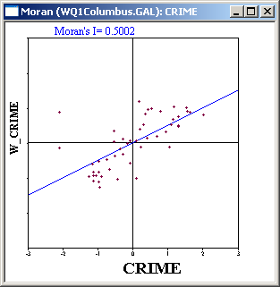 Moran Scatter Plot of crime in Columbus, created in GeoDA.